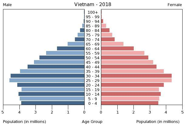 The population pyramid of Vietnam illustrates the age and sex structure of population and may provide insights about political and social stability, as well as economic development. The population is distributed along the horizontal axis, with males shown on the left and females on the right. The male and female populations are broken down into 5-year age groups represented as horizontal bars along the vertical axis, with the youngest age groups at the bottom and the oldest at the top. The shape of the population pyramid gradually evolves over time based on fertility, mortality, and international migration trends.